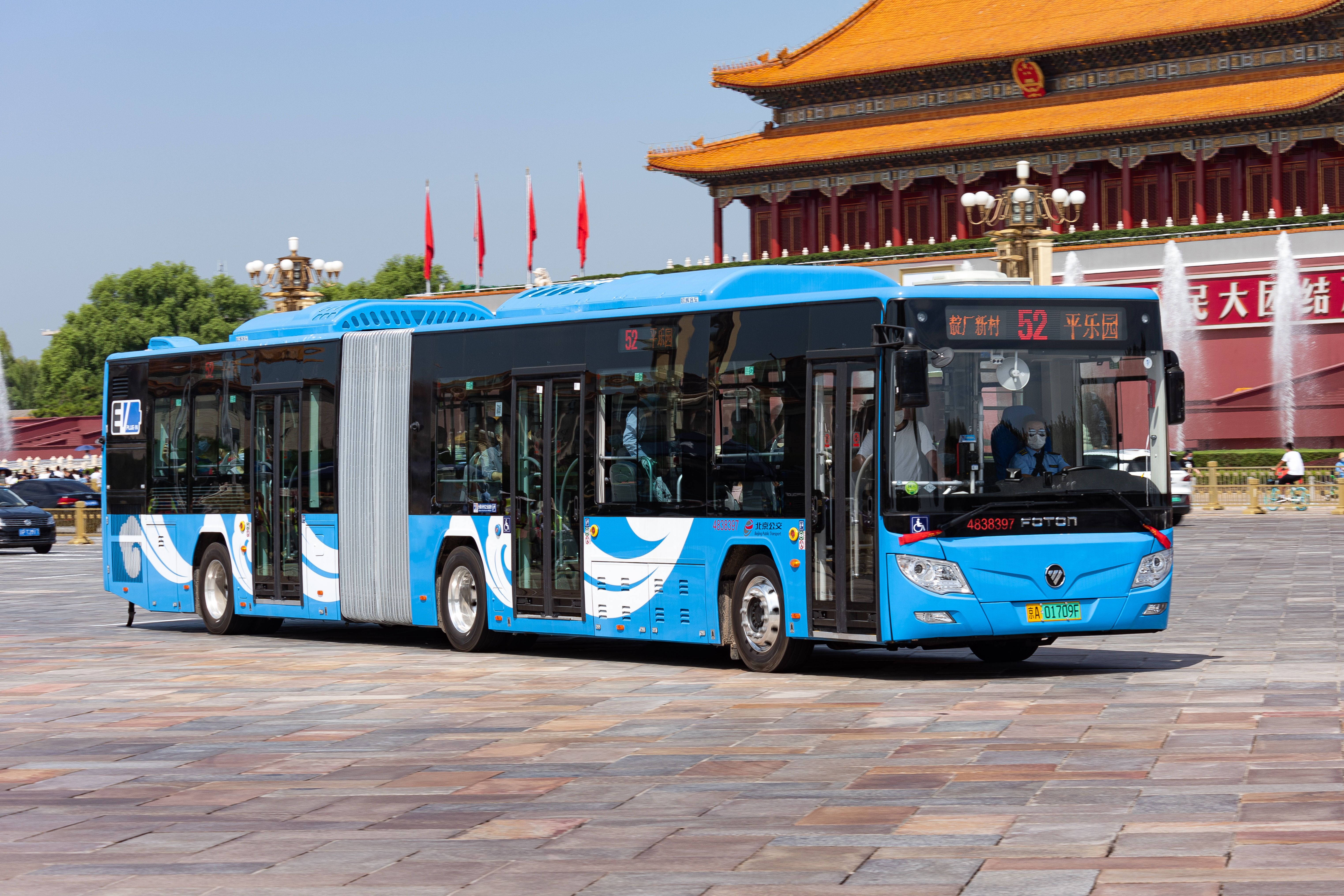 Ta-na-ba-ta! 38390 not yet delivered.